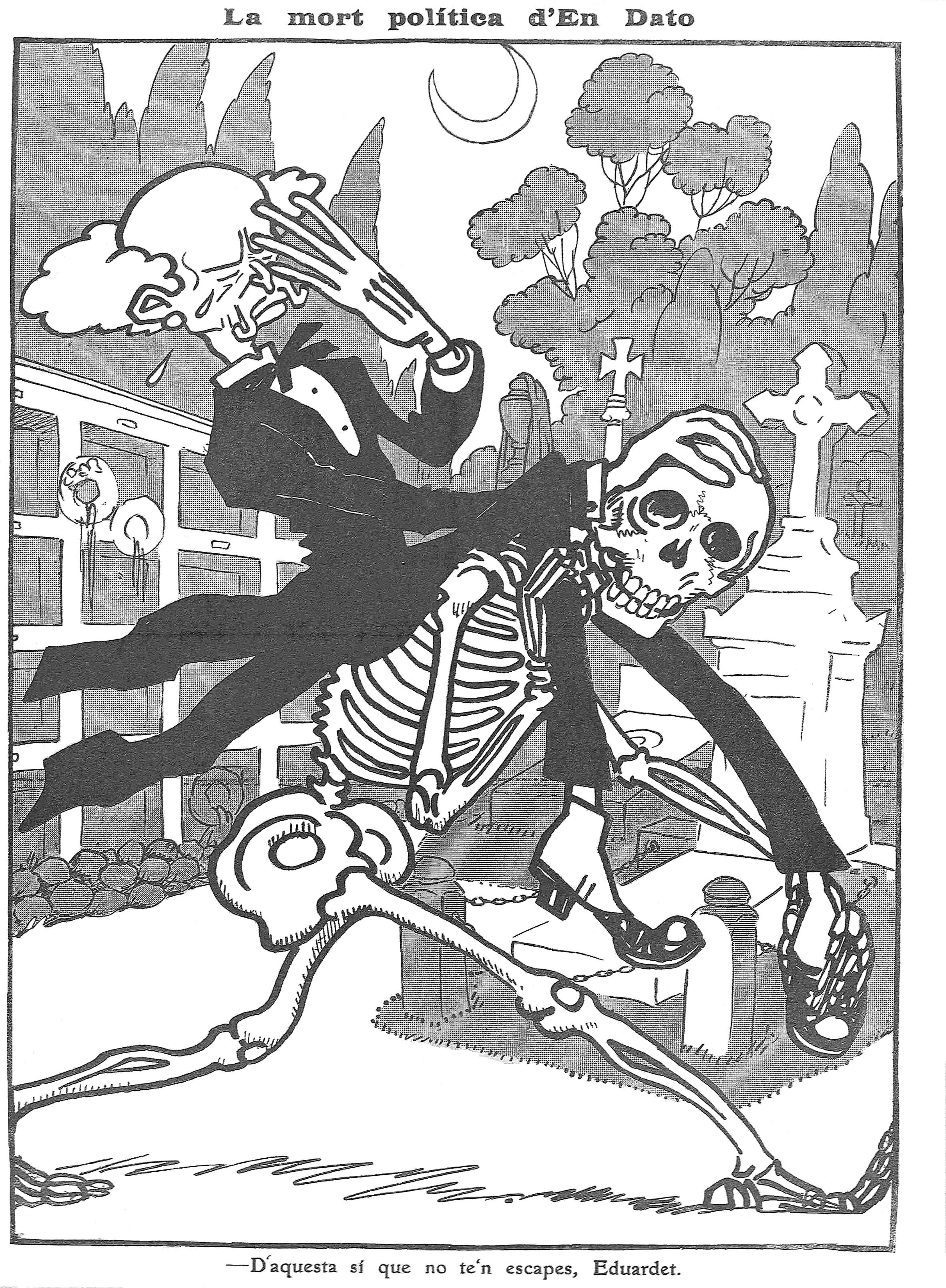 Caricature of Eduardo Dato taken from the Catalan newspaper "La Campana de Gràcia" (1917)